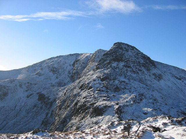 Stuc a Chroin northern ridge.